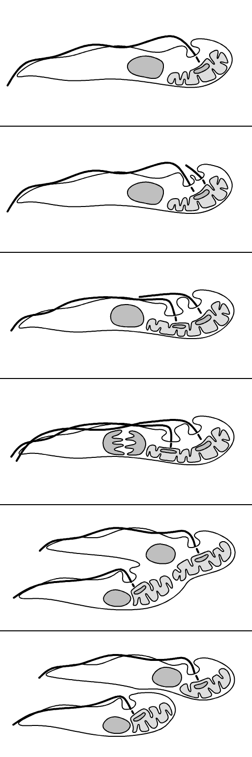 Trypanosome cell cycle (procyclic form). By Richard Wheeler (Zephyris) 2006.